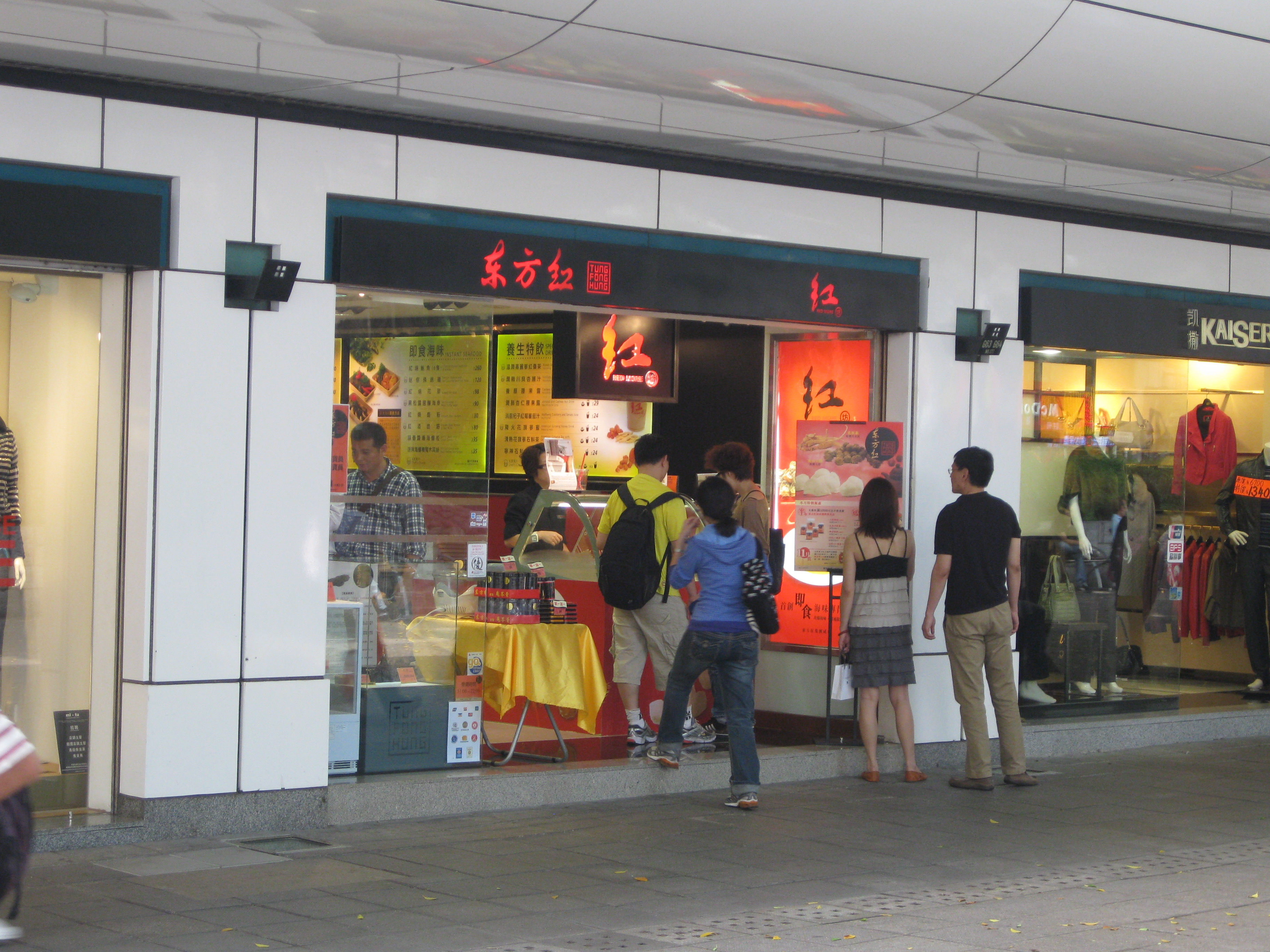 Tung Fong Hung (Medicine) Parklane Avenue branch